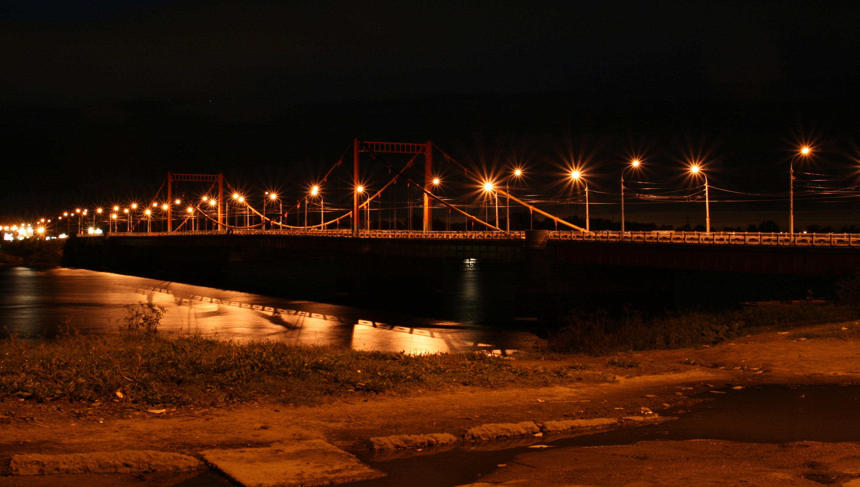 Kuznechevsky Bridge in Arkhangelsk, Russia